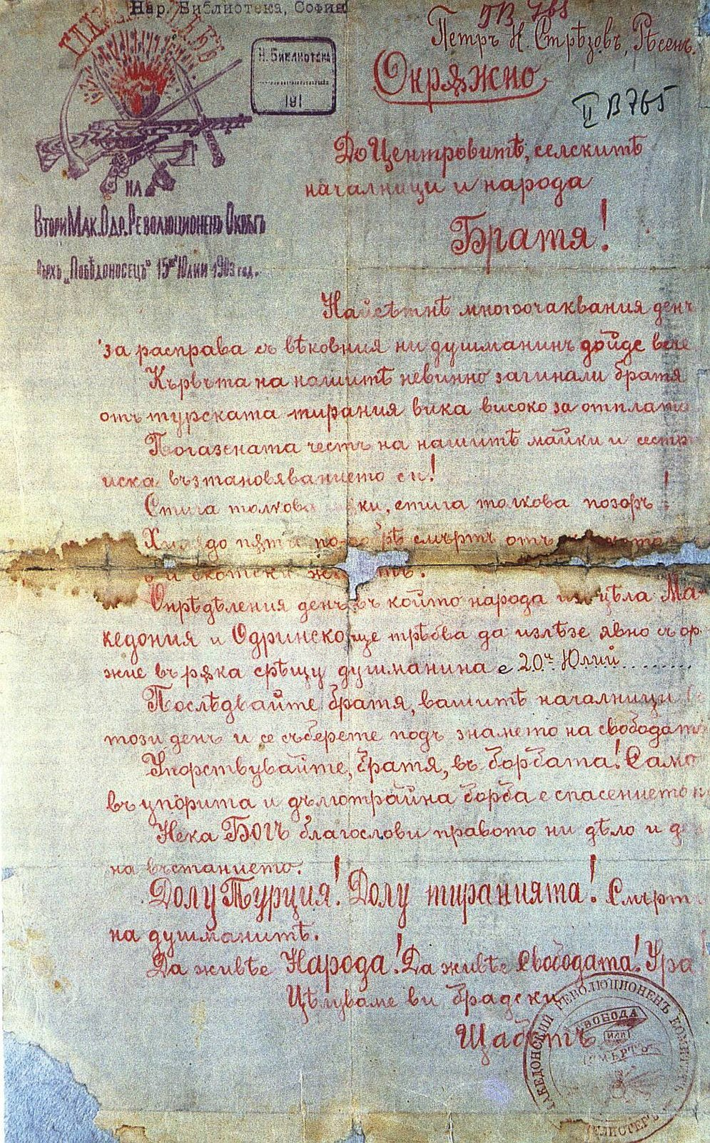 Proclamation of the Ilinden-Preobrazhenie uprising in The II Revolutionary district.